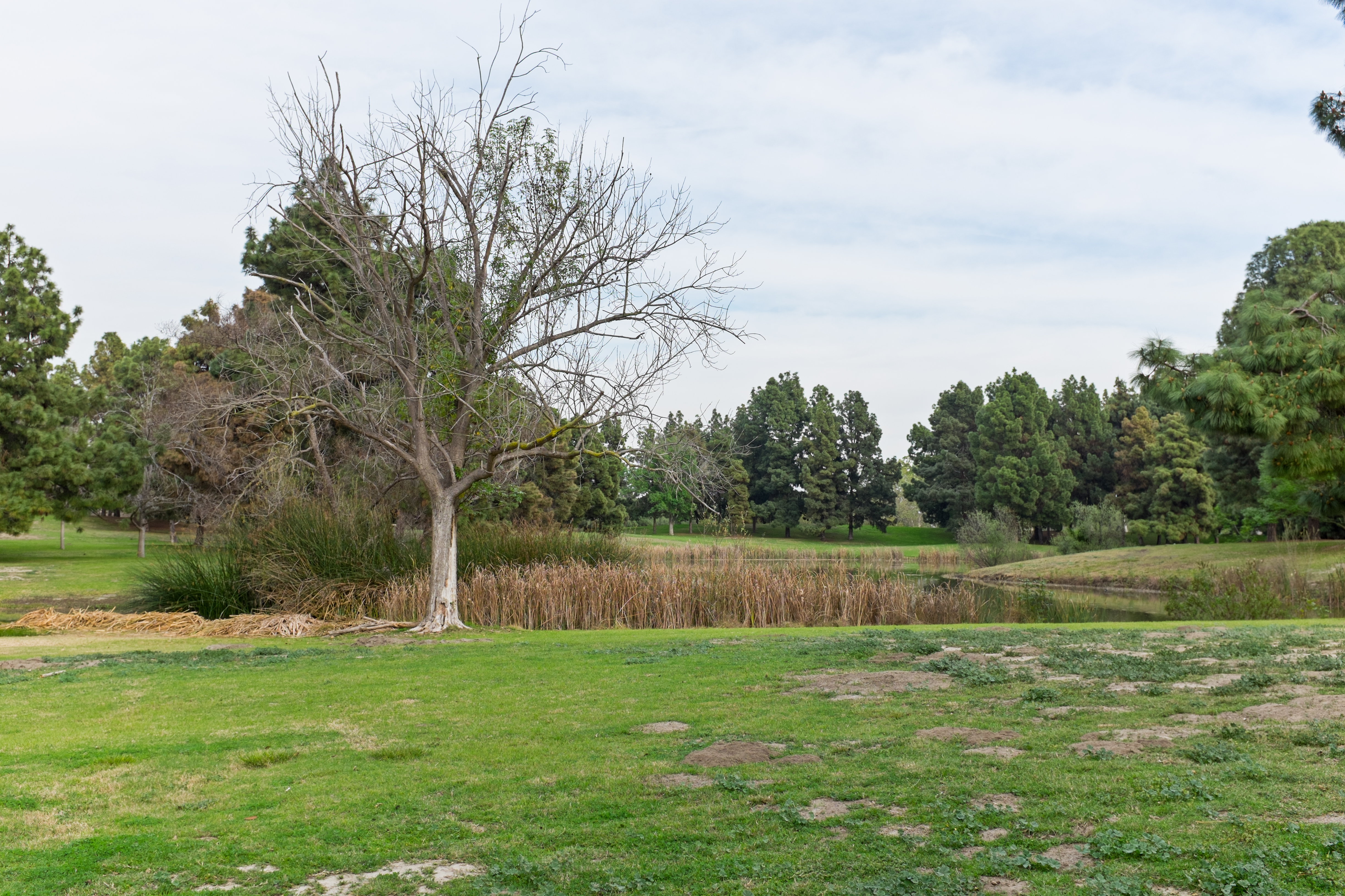 Horseshoe lake (bottom part) of El Dorado regional park